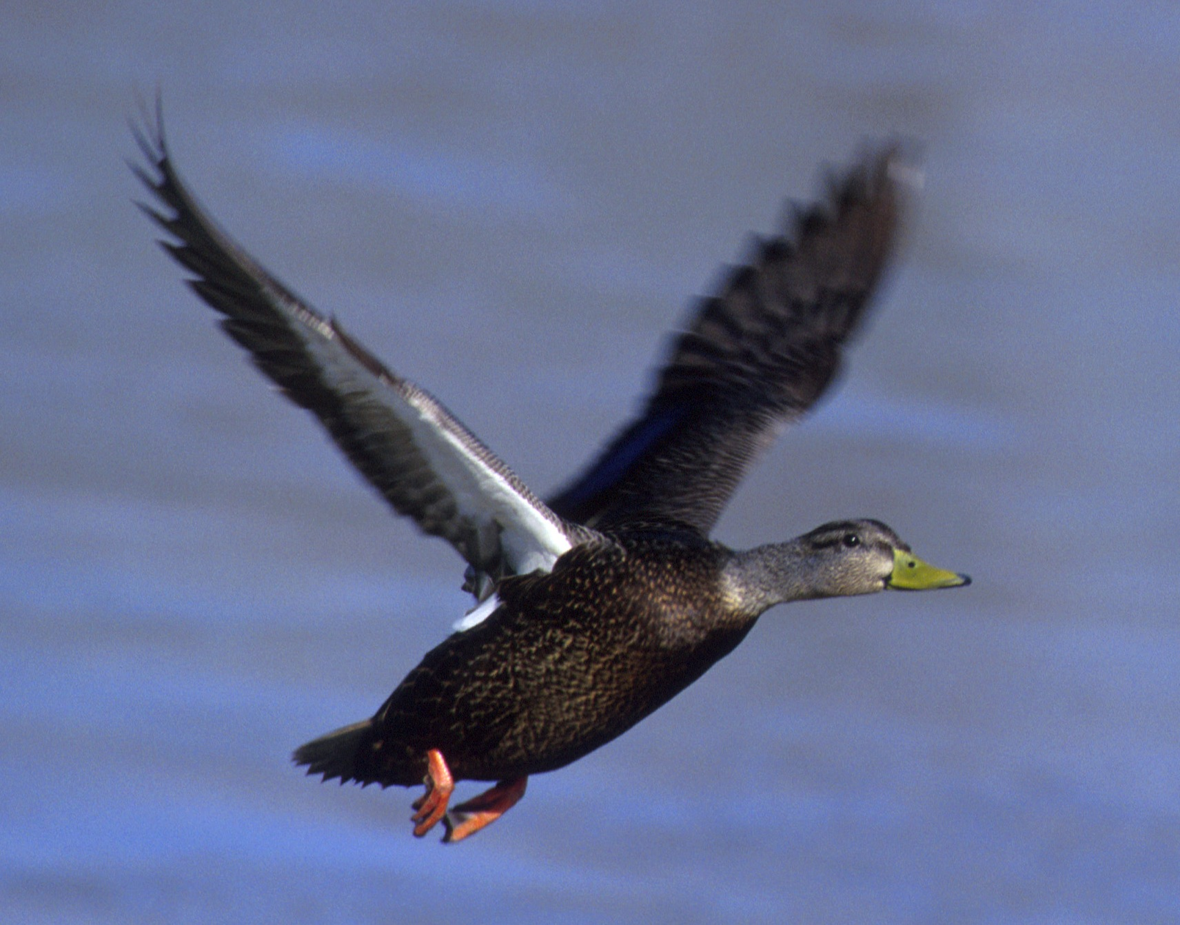 American Black Duck (Anas rubripes) in flight.